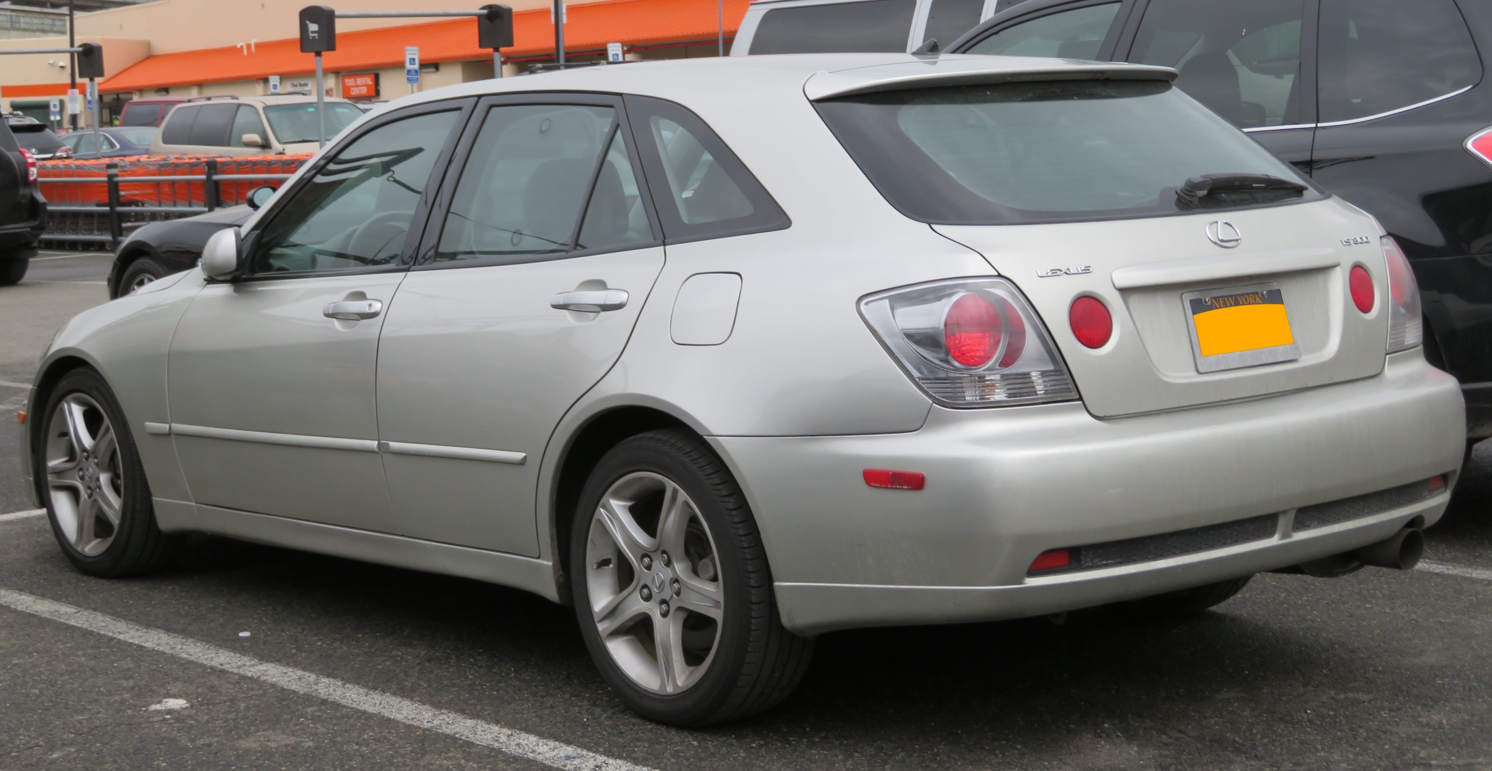 In Flushing(Queens), New York